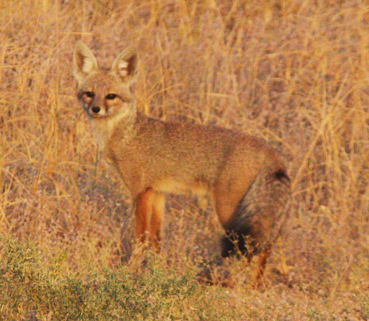 Bengal fox (Vulpes bengalensis).